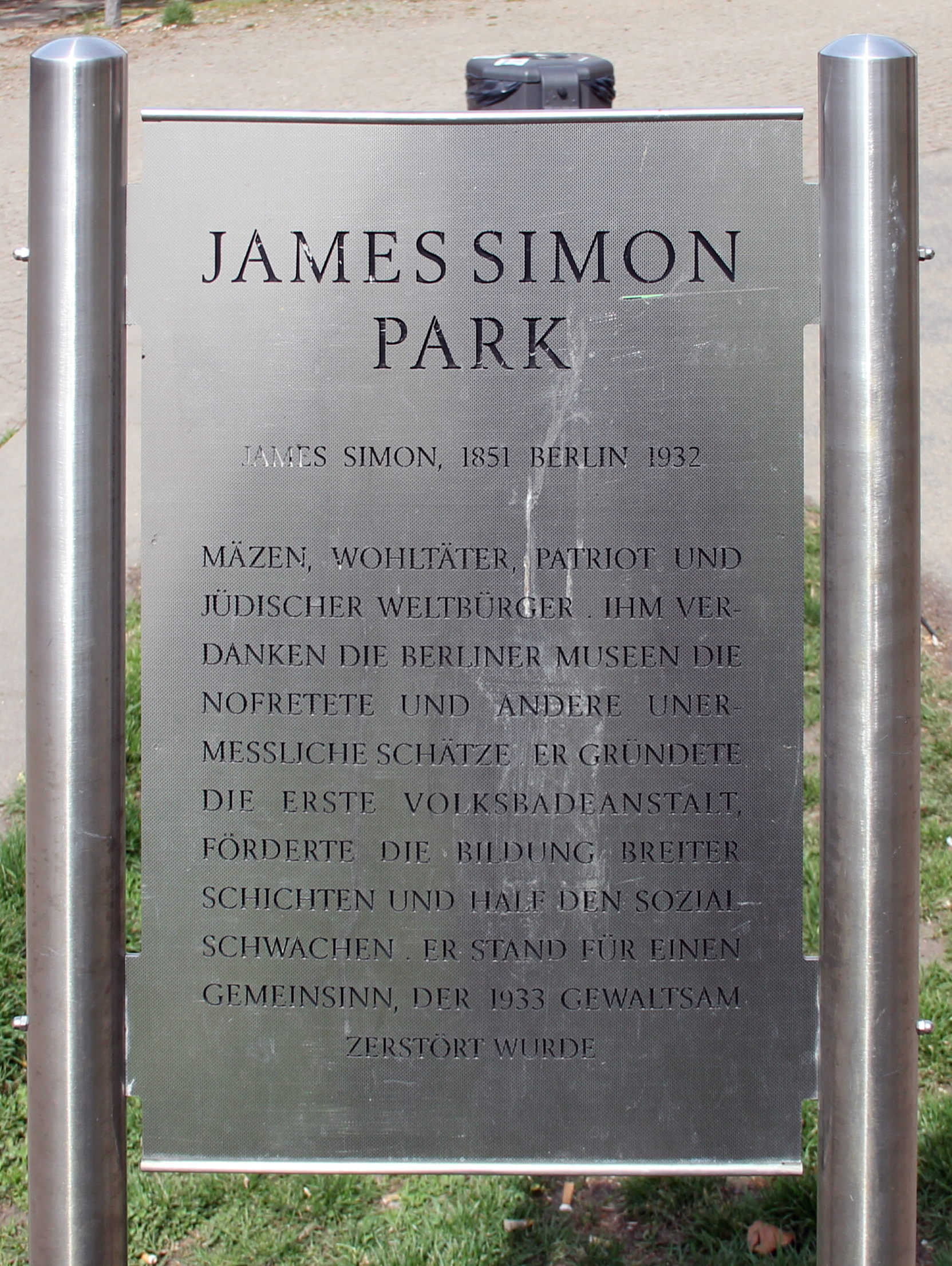 Memorial plaque, James Simon, James-Simon-Park, Berlin-Mitte, Germany